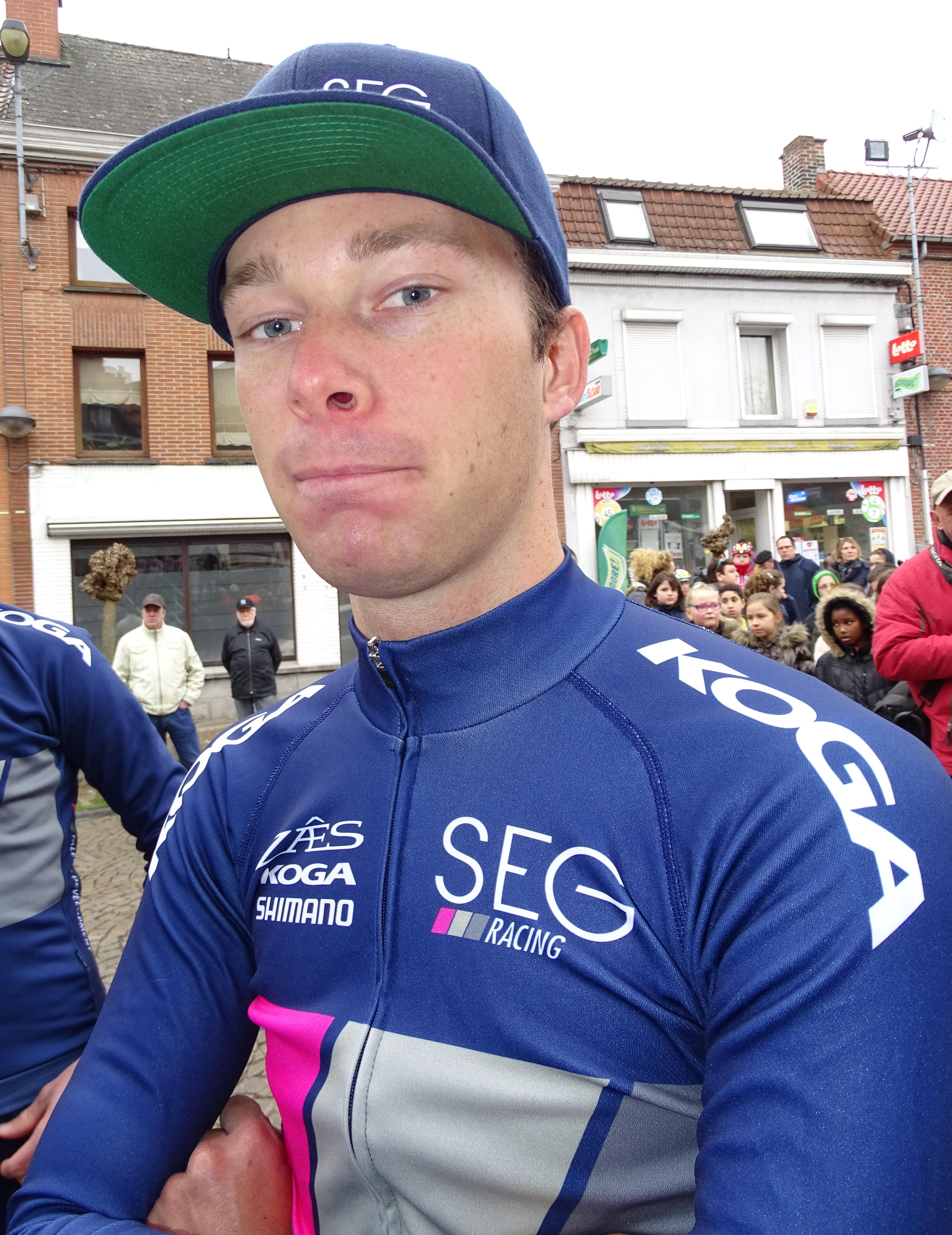 Triptyque des Monts et Châteaux 2015 Depicted person: Steven Lammertink Depicted team: SEG Racing